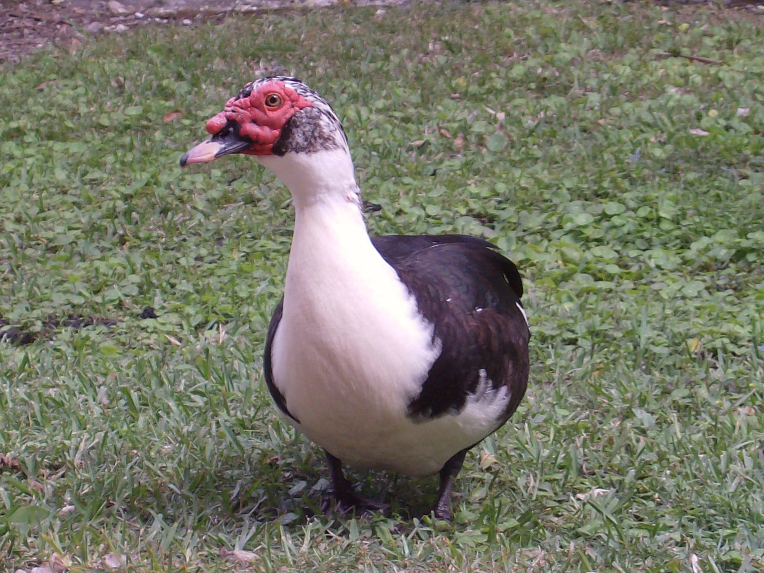 Male Muscovy Duck